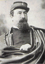 Portrait of Edelmiro Mayer (c. 1893)